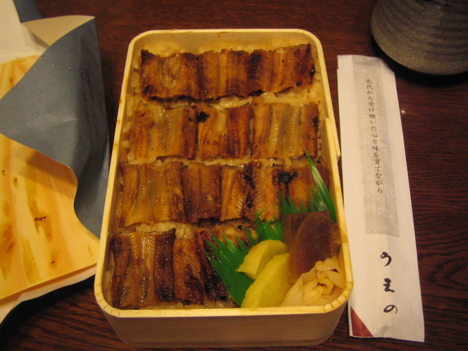 This is "anago-meshi" what is made from sea eel and rice by anago-meshi restaurant Ueno. This is a packed lunch a local specialty of Miyajima in Hiroshima Prefecture Japan.